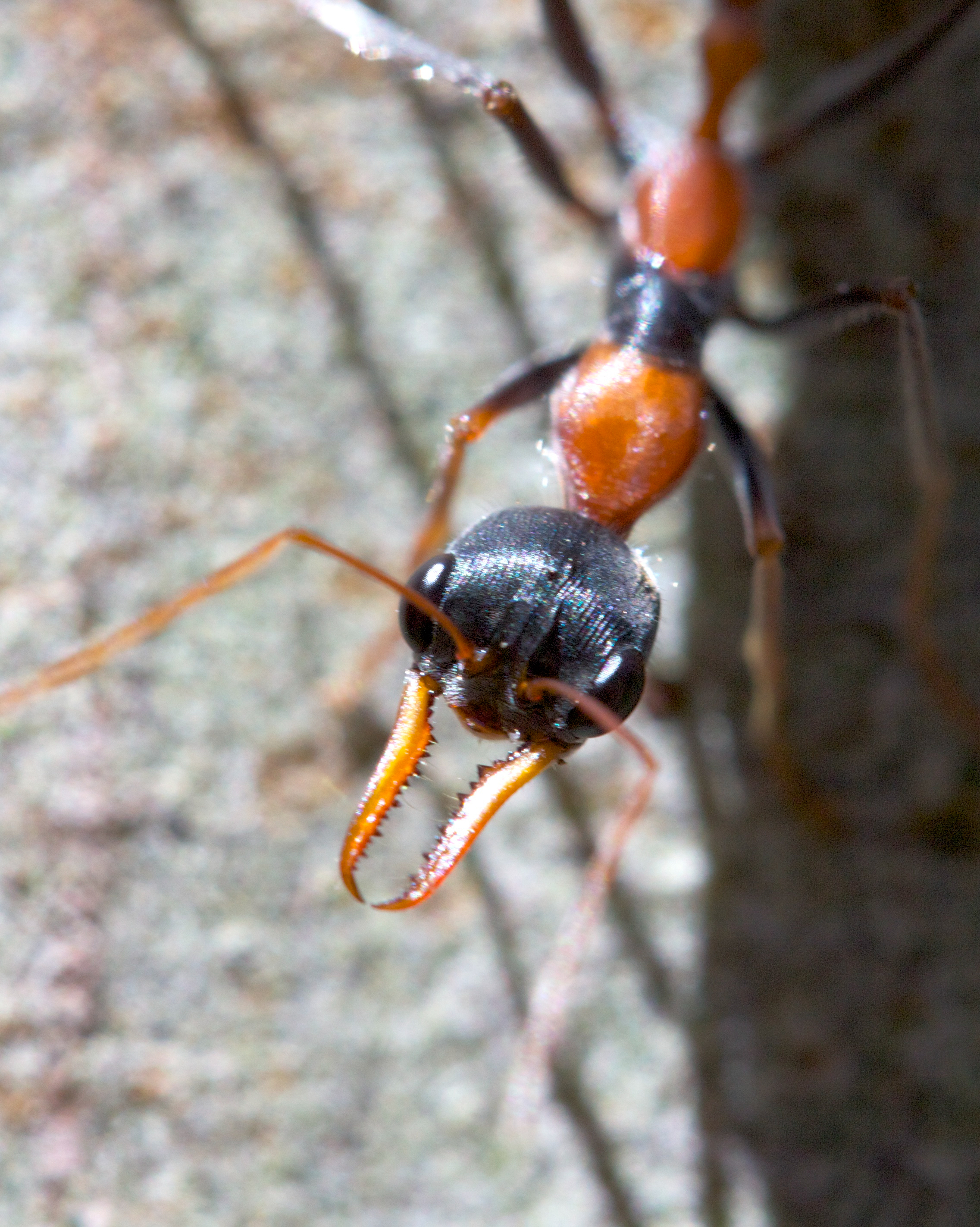 Close up of a worker M. nigrocincta. Note the large jaws and eyes. Queensland, Australia.